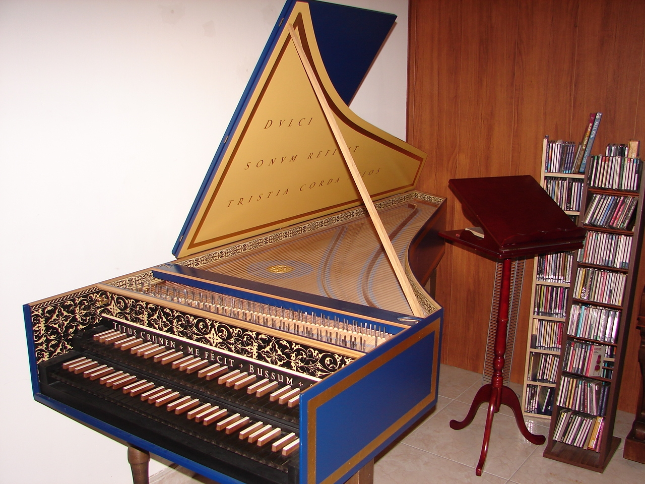 Double-manual, Franco-Flemish harpsichord, loosely based on models by Ruckers and others, built in 2004 by Titus Crijnen in Holland